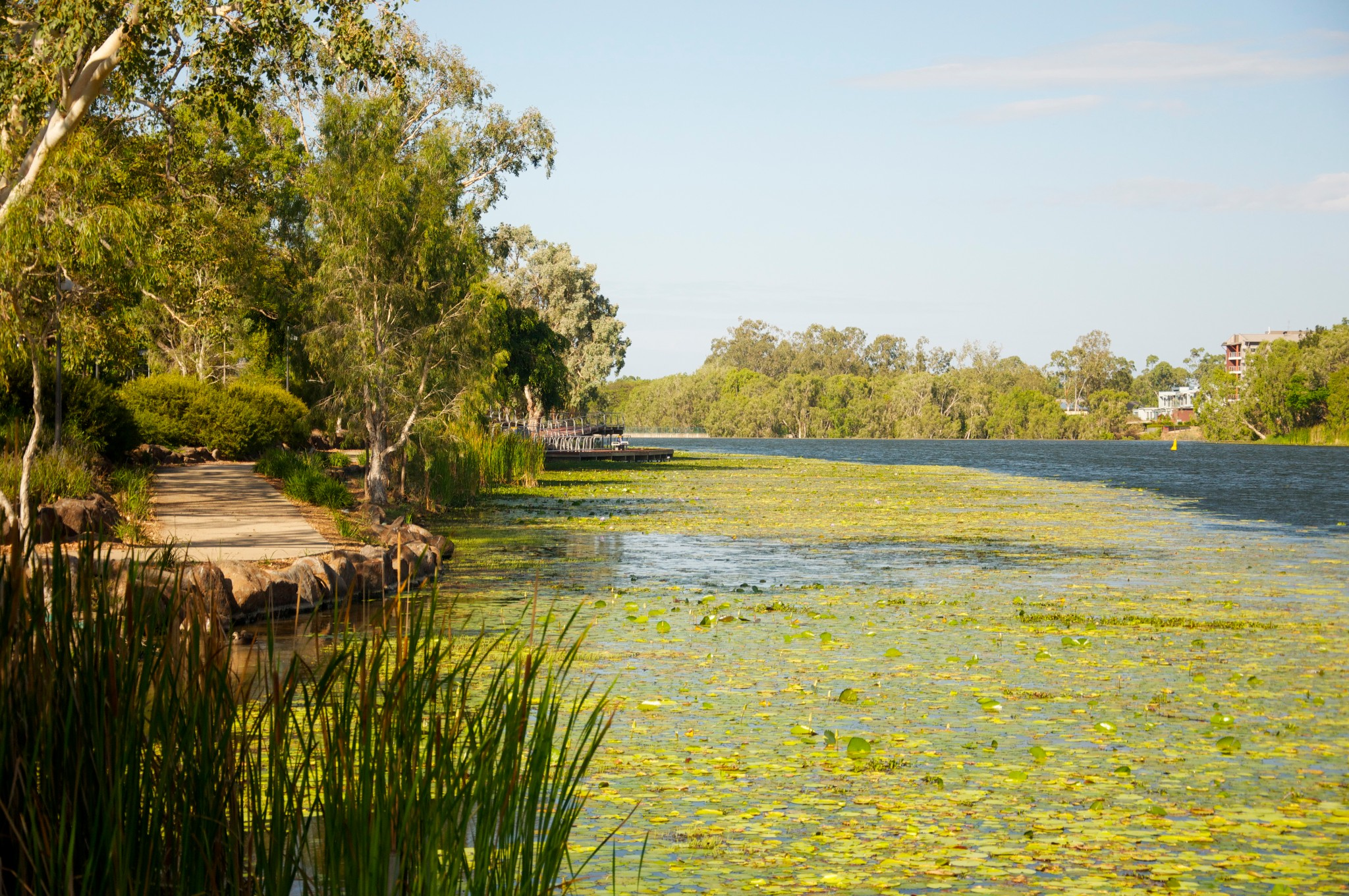 Ross River (Townsville) taken from Riverway